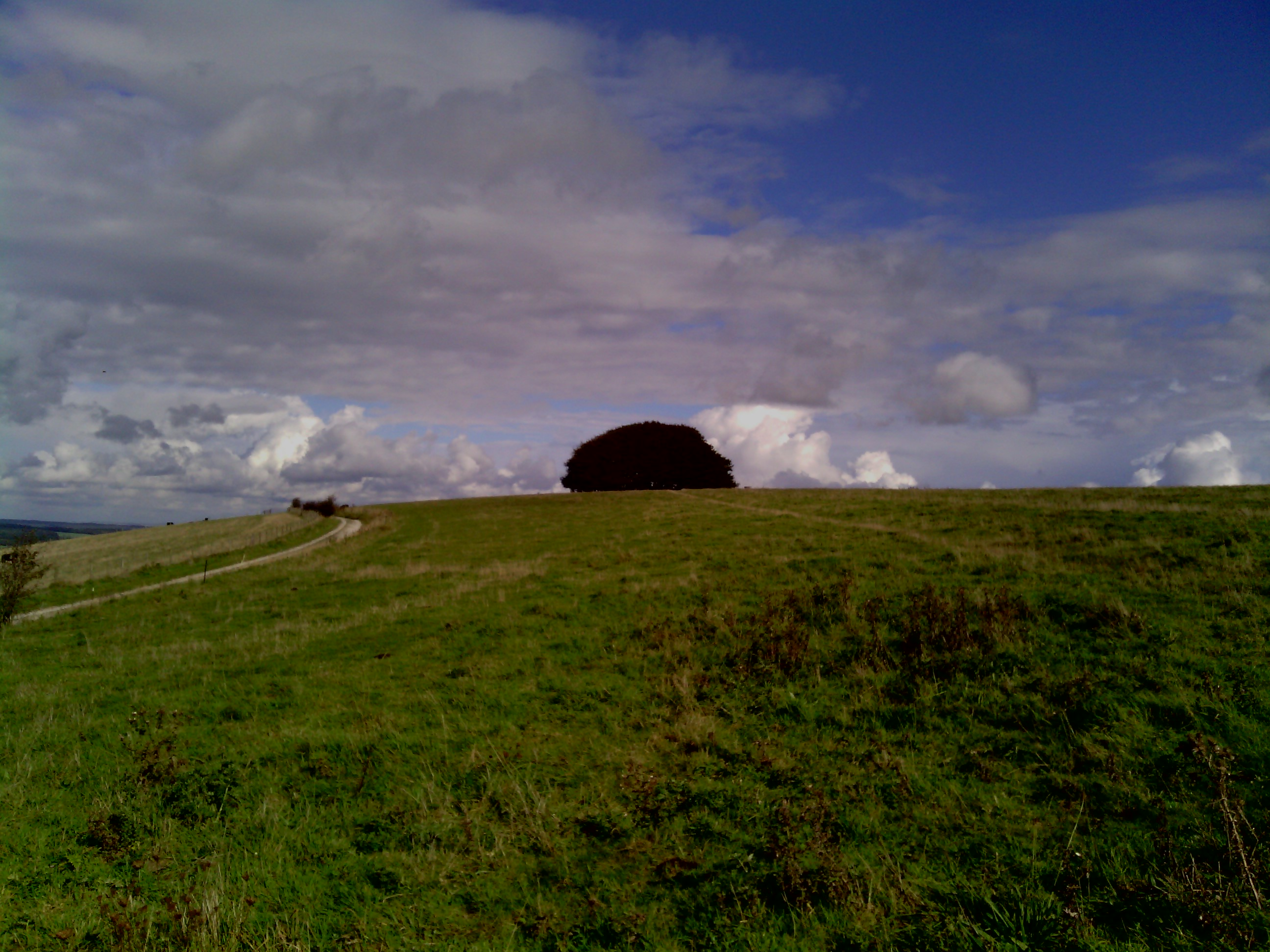 Wingreen Hill the highest point of Cranborne Chase an area of Outstanding Natural Beauty in Wiltshire, England